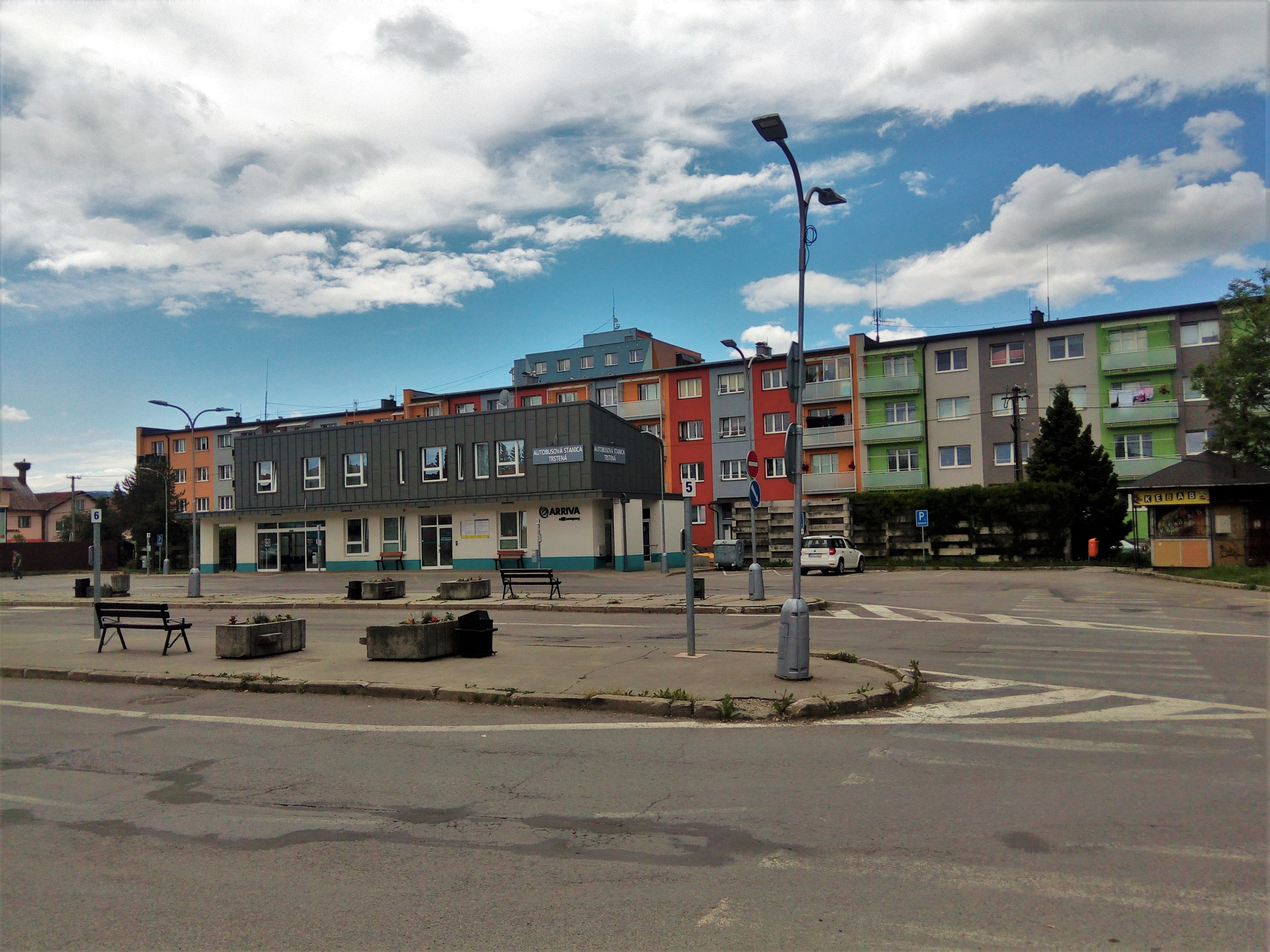 Bus station in Trstená, Slovakia.